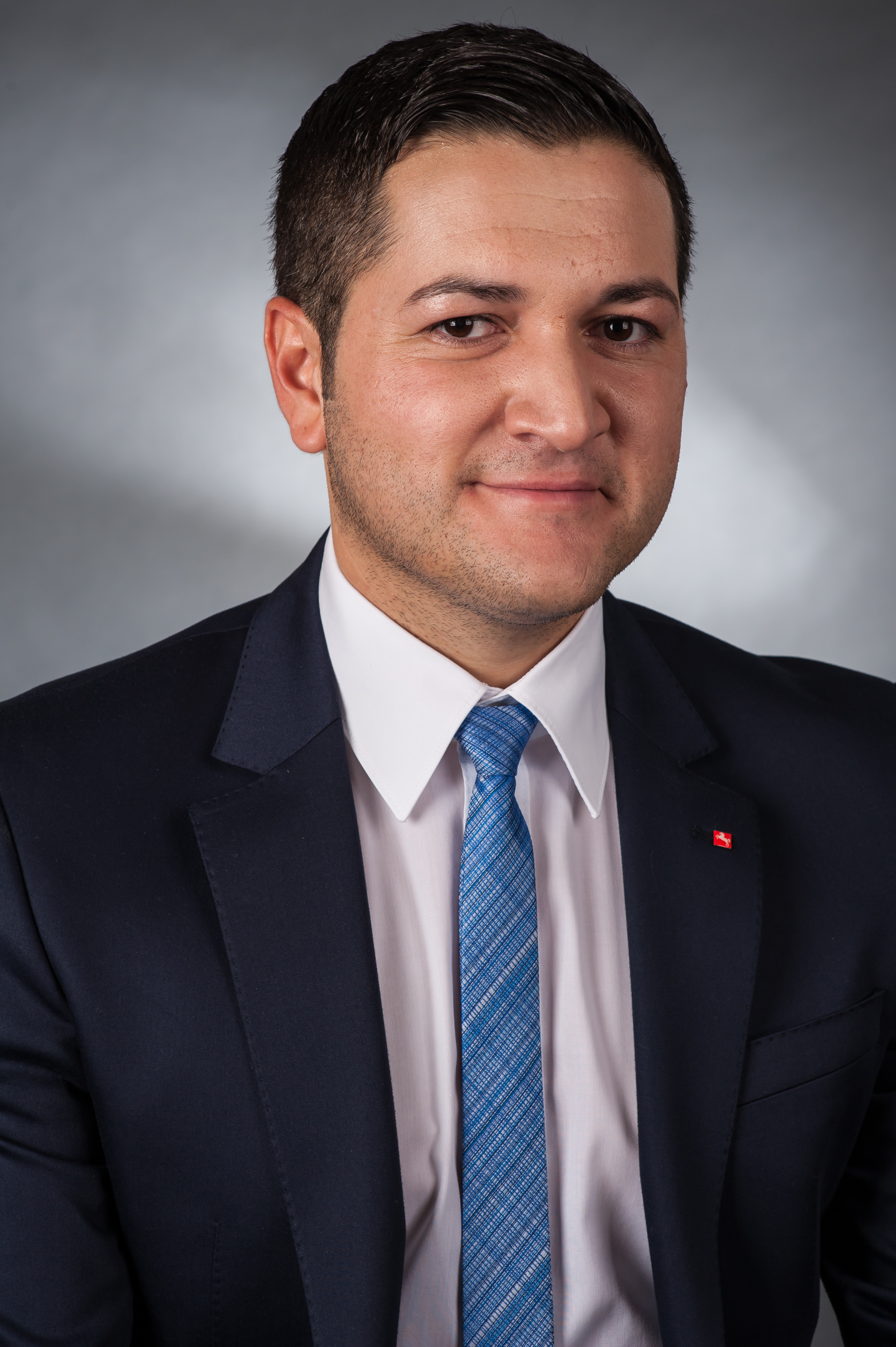 Wikipedia im Landtag – Niedersachsen 17. bis 18. April 2013 in Hannover Personality rights warningAlthough this work is freely licensed or in the public domain, the person(s) shown may have rights that legally restrict certain re-uses unless those depicted consent to such uses. In these cases, a model release or other evidence of consent could protect you from infringement claims.